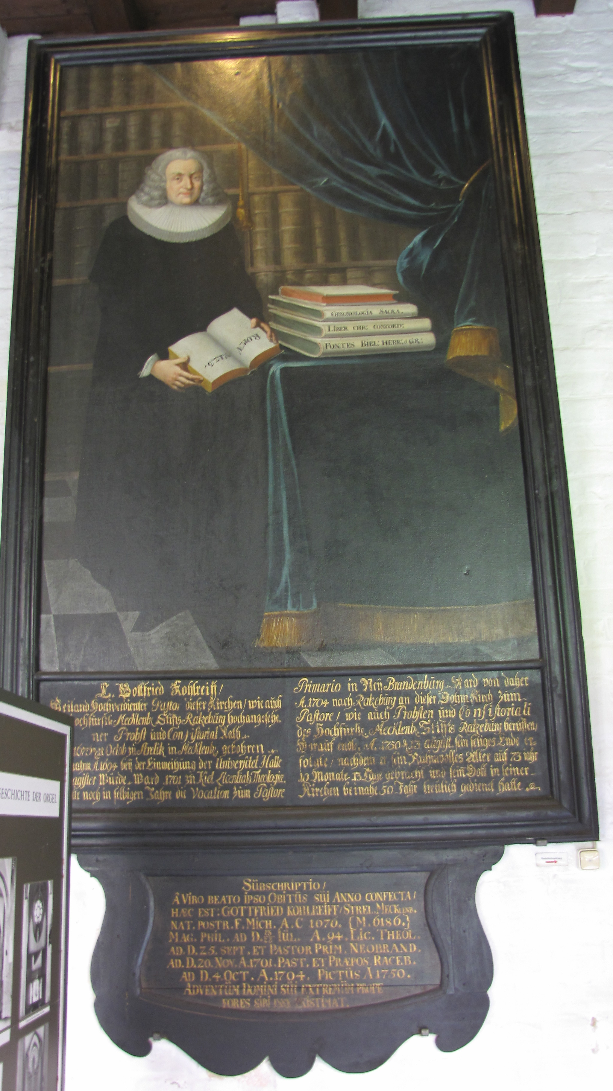 Portrait of Gottfried Kohlreif in Ratzeburg Cathedral